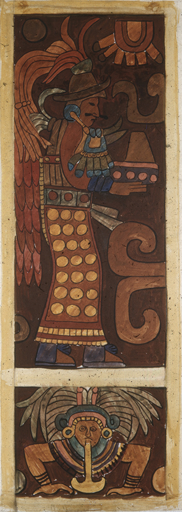 Title: 7A, Relief, lower terrace columns, Temple of the Warriors Creator: Medellin, Octavio Date: 1938 Place: Yucatan, Mexico Physical Description: 1 slide: color File: medellin_8c_warriors_007a_2_opt.jpg Rights: Please cite Southern Methodist University, Central University Libraries, DeGolyer Library when using this image file. A high-quality version of this file may be obtained for a fee by contacting . For more information, see: View Octavio Medellin: Works of Art and Artistic Processes